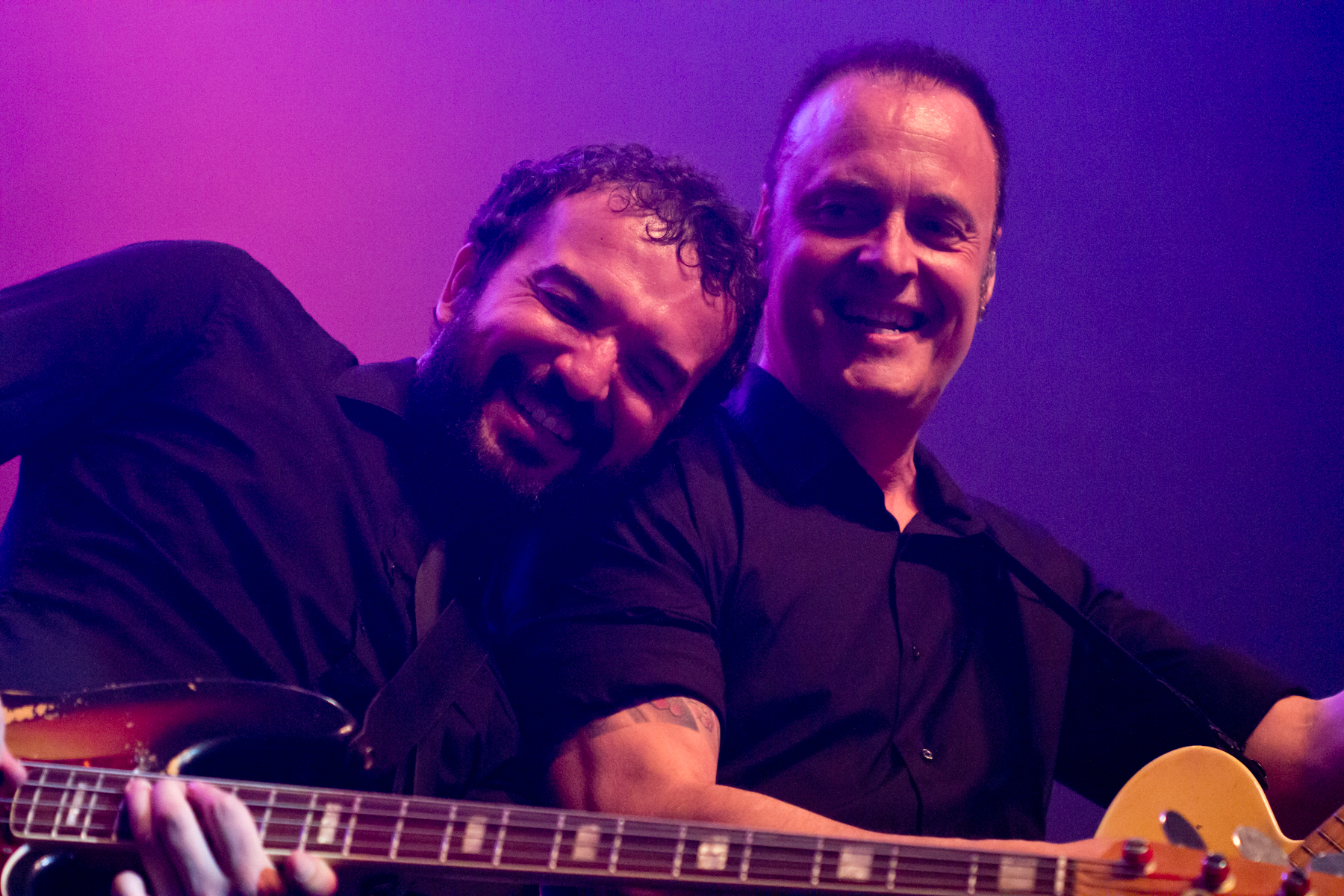 Spanish rock band M Clan live in May 2013.